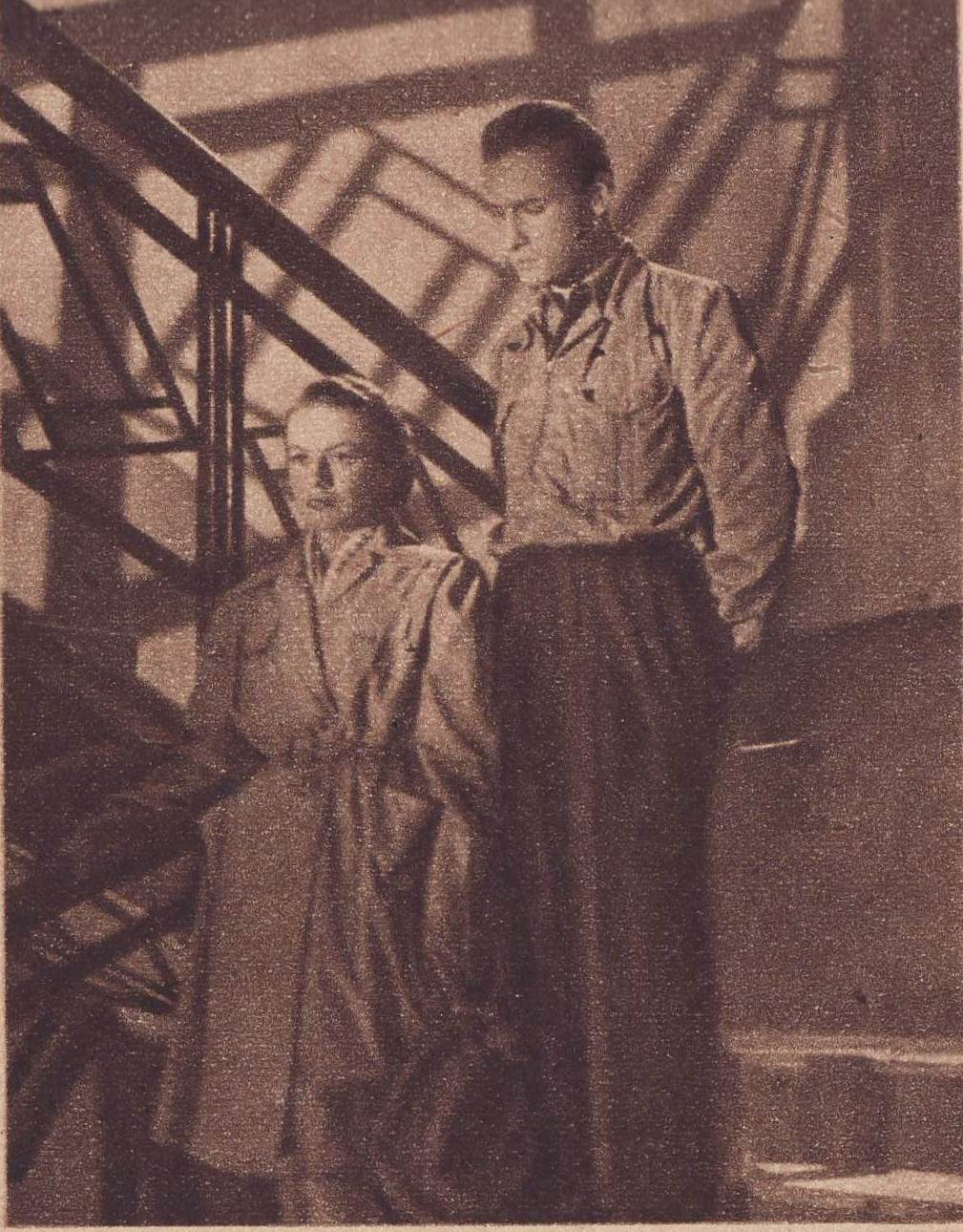 Actors from the Polish movie Dwie godziny (Two hours): Danuta Szaflarska & Jerzy Duszyński